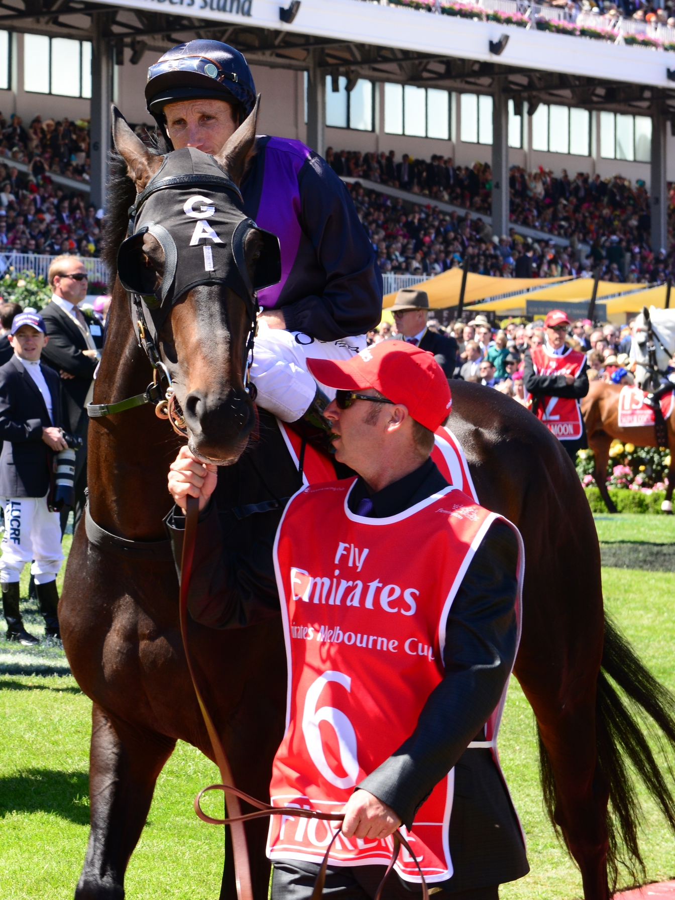 Fiorente, winner of the 2013 Melbourne Cup, pictured with jockey Damien Oliver before the race